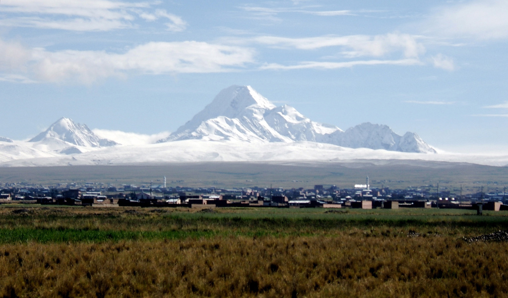 Road from Copacabana to La Paz, Bolivia, Huayna Potosí (south face)